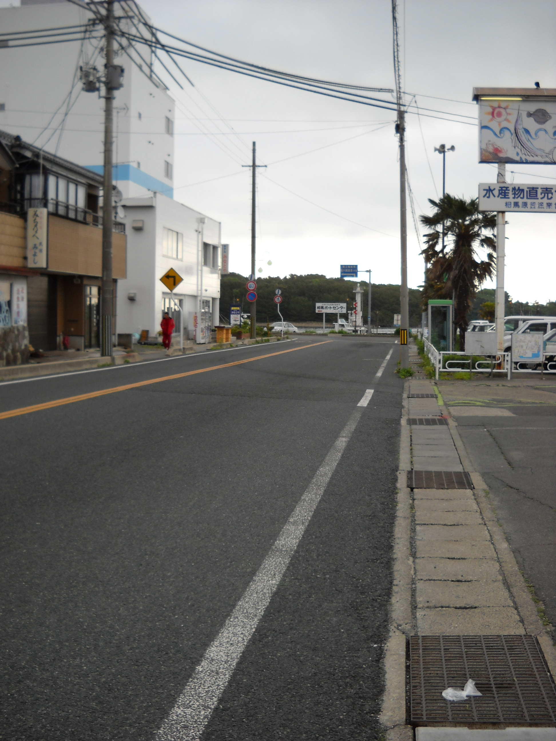 Fukushima Prefectural Road 375, Japan